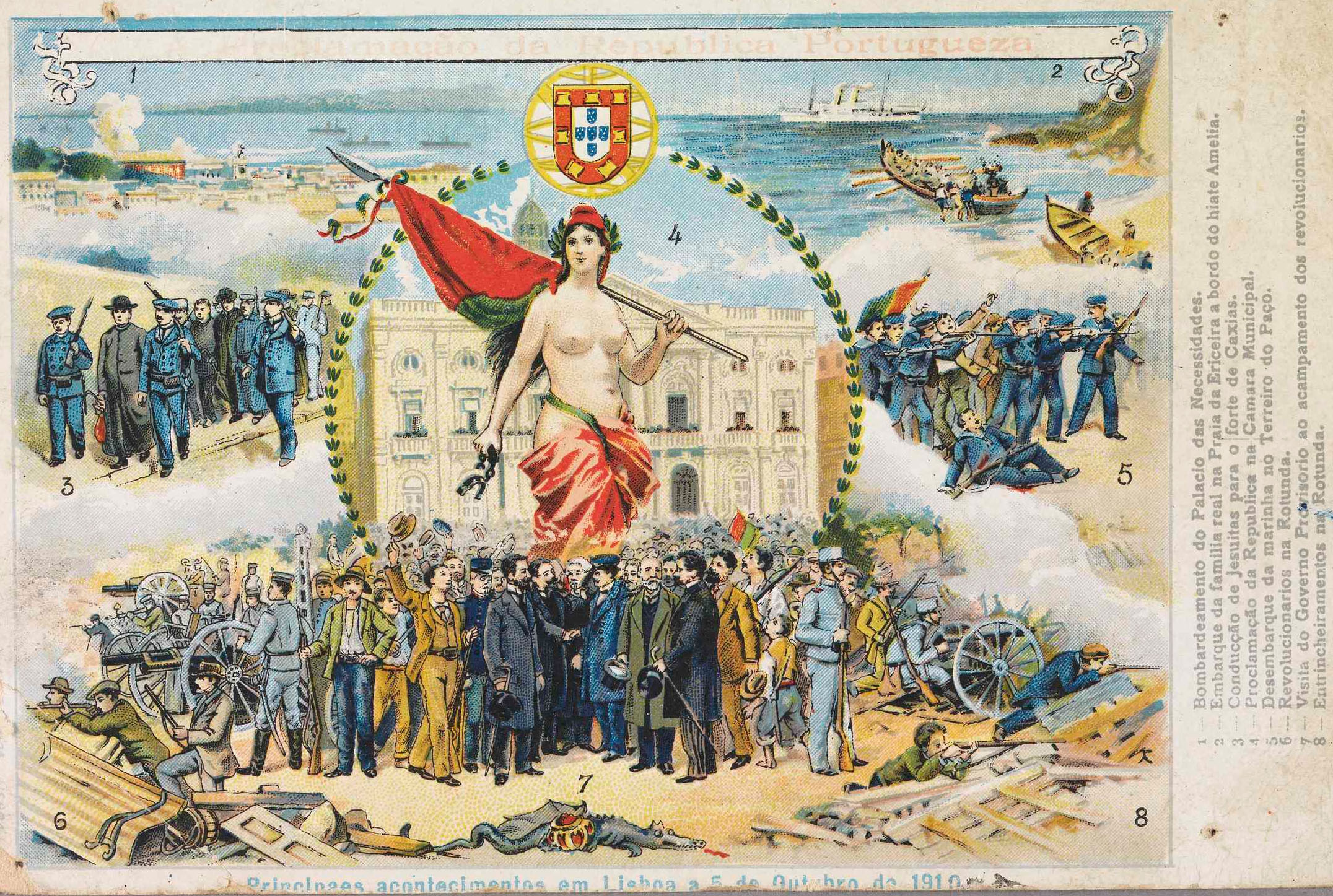 Postcard with illustrations depicting the events of the revolution of 3 October 1910 in Lisbon, which led to the proclamation of the Portuguese Republic.